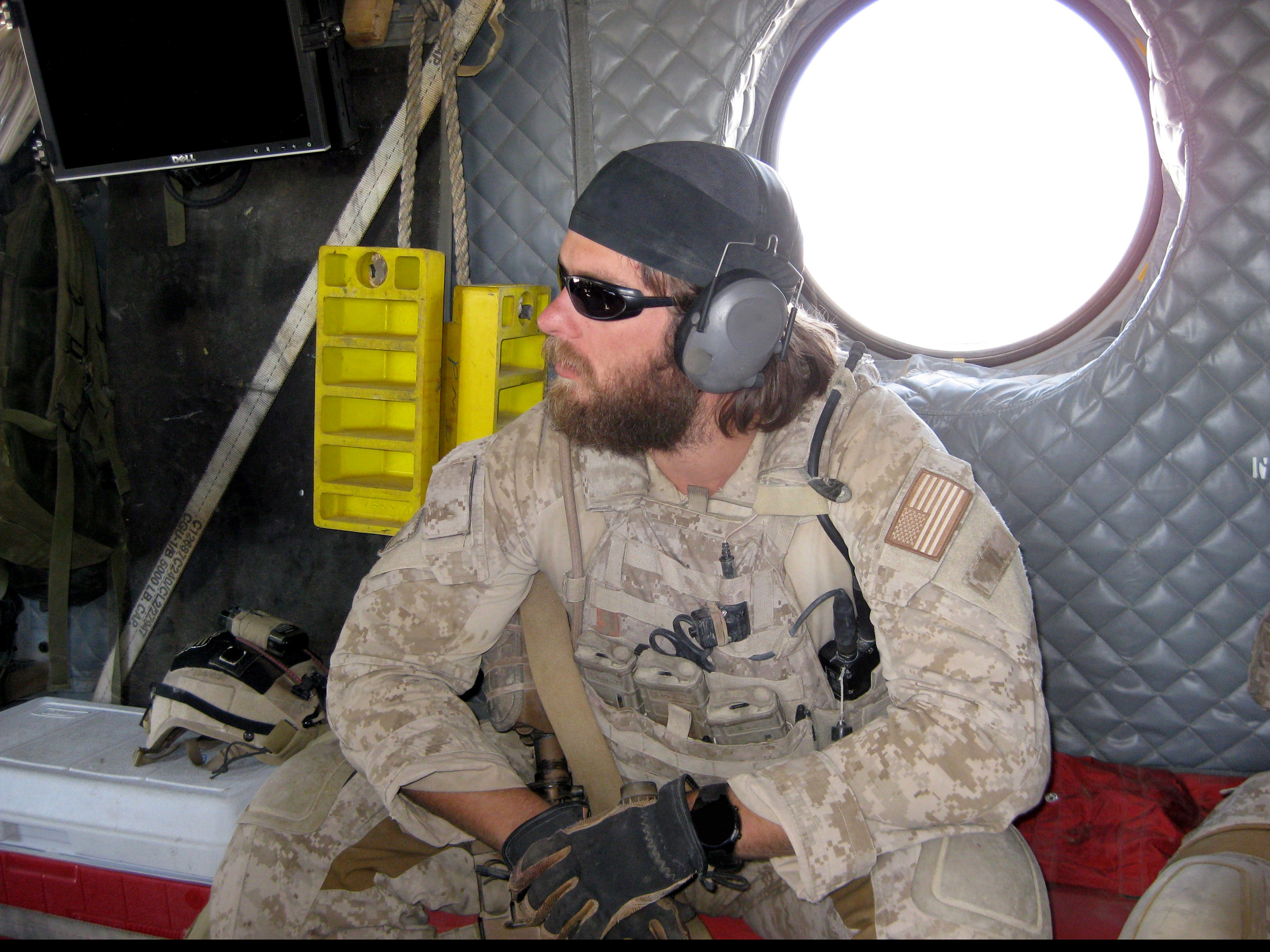 WASHINGTON (Feb. 23, 2016) An undated file photo of Senior Chief Special Warfare Operator (SEAL) Edward C. Byers Jr. Byers will be awarded the Medal of Honor by President Barack Obama during a White House ceremony Feb. 29. Byers is receiving the medal for his actions during a 2012 rescue operation in Afghanistan. Uniform insignia has been digitally removed from this photo for security reasons. (U.S. Navy photo/Released) 160223-N-ZZ999-111 Join the conversation: navylive.dodlive.mil